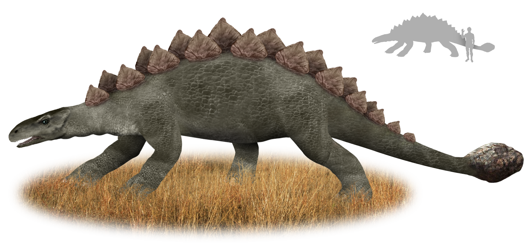 Muhuru artist's impression